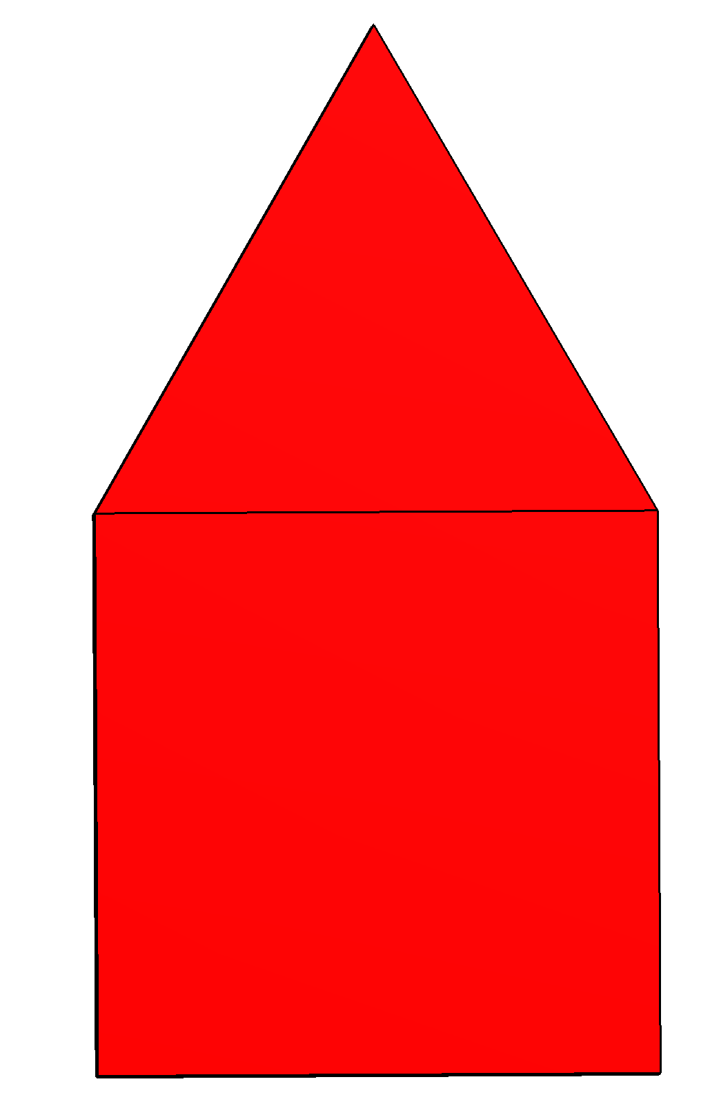 Equilateral pentagon]